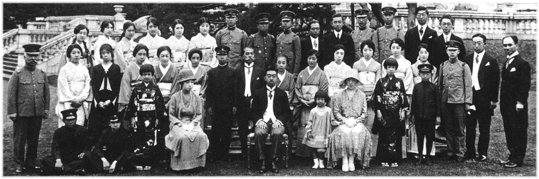 Emperor Hirohito (Emperor Shōwa) and members of the Kyū-Miyake (Cadet Royal Families), estimated around 1937 CE.